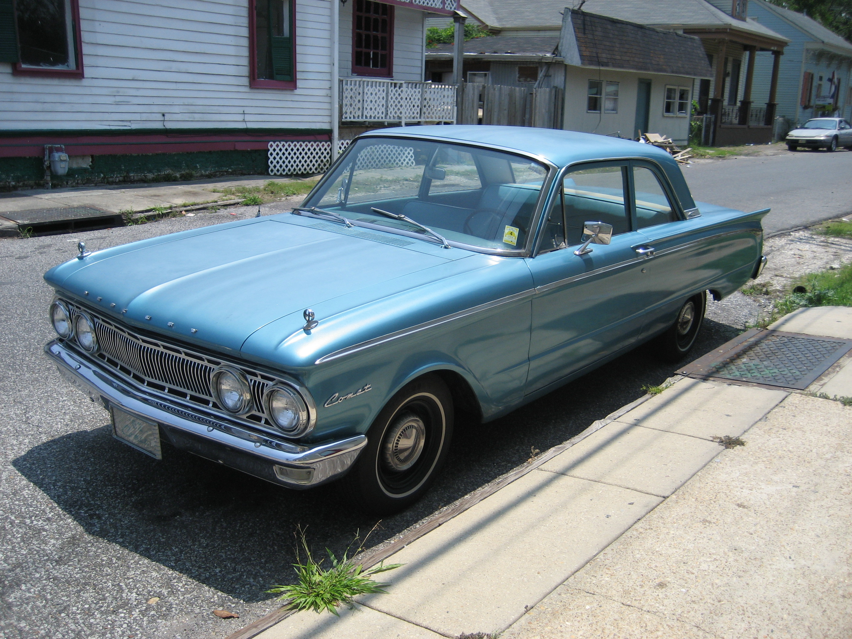 1962 Mercury Comet seen on street in New Orleans